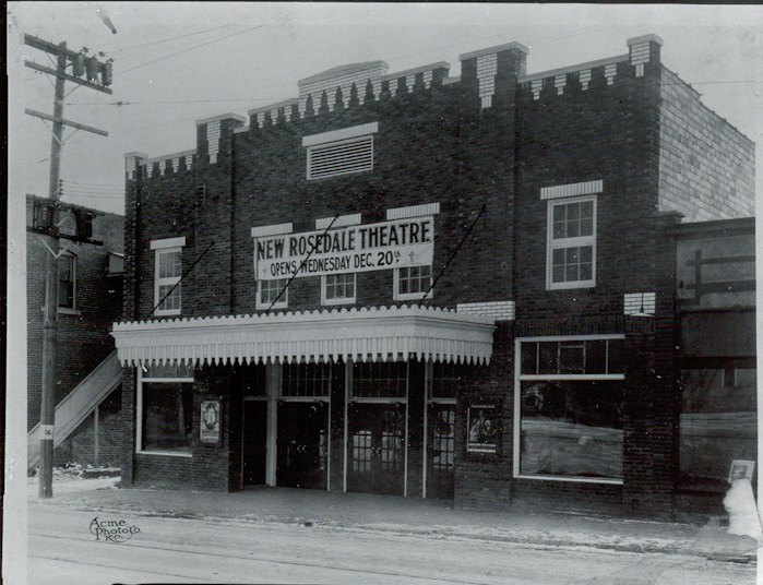 This is a photo of the Vox Theatre prior to opening day in 1922.